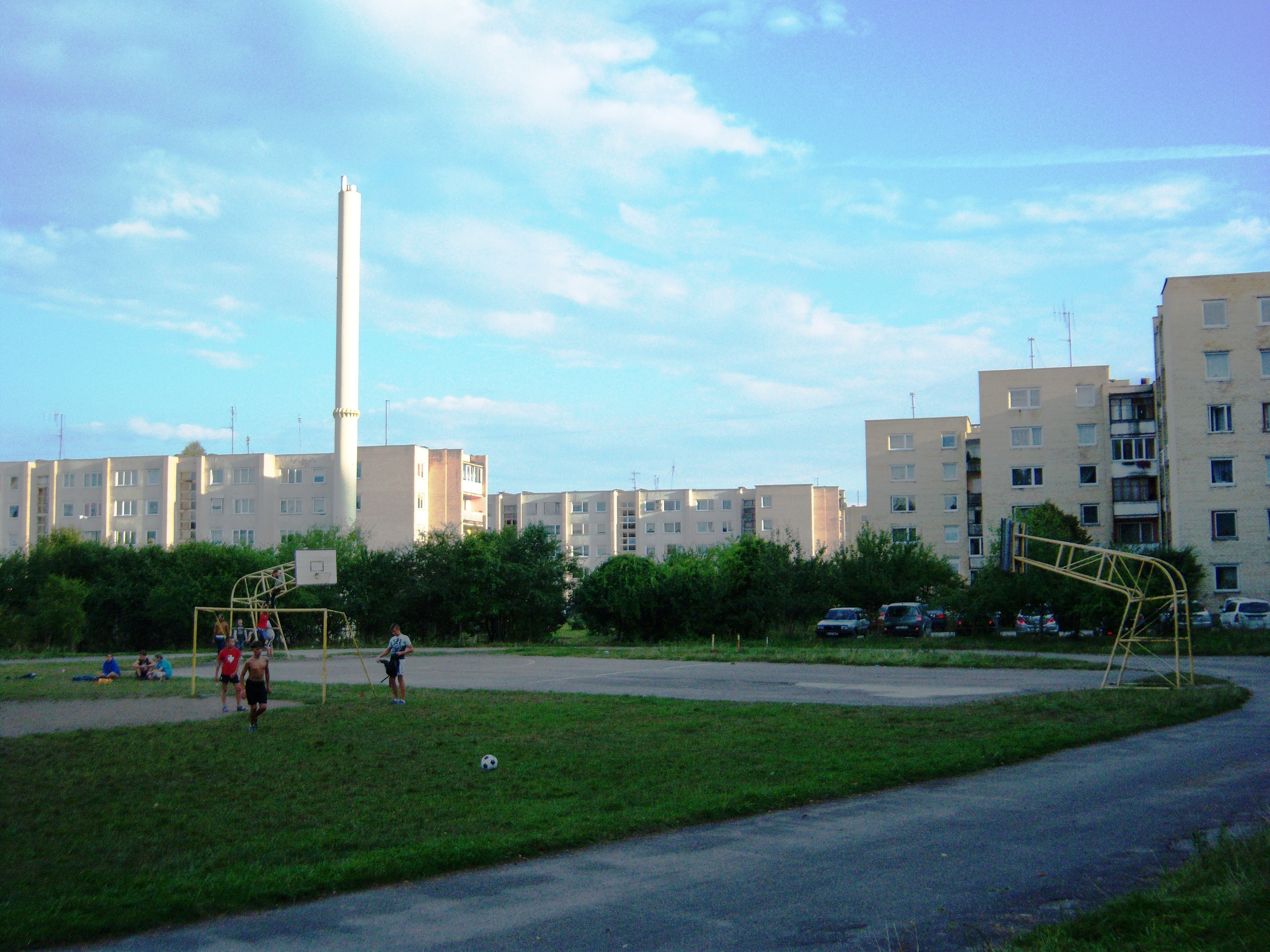 Housing in Pagiriai, Vilnius District, Lithuania